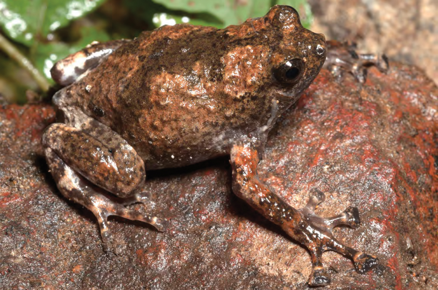 Kaloula kalingensis (KU 330273) from forests below the crater of Mt. Cagua. Photo: RMB.